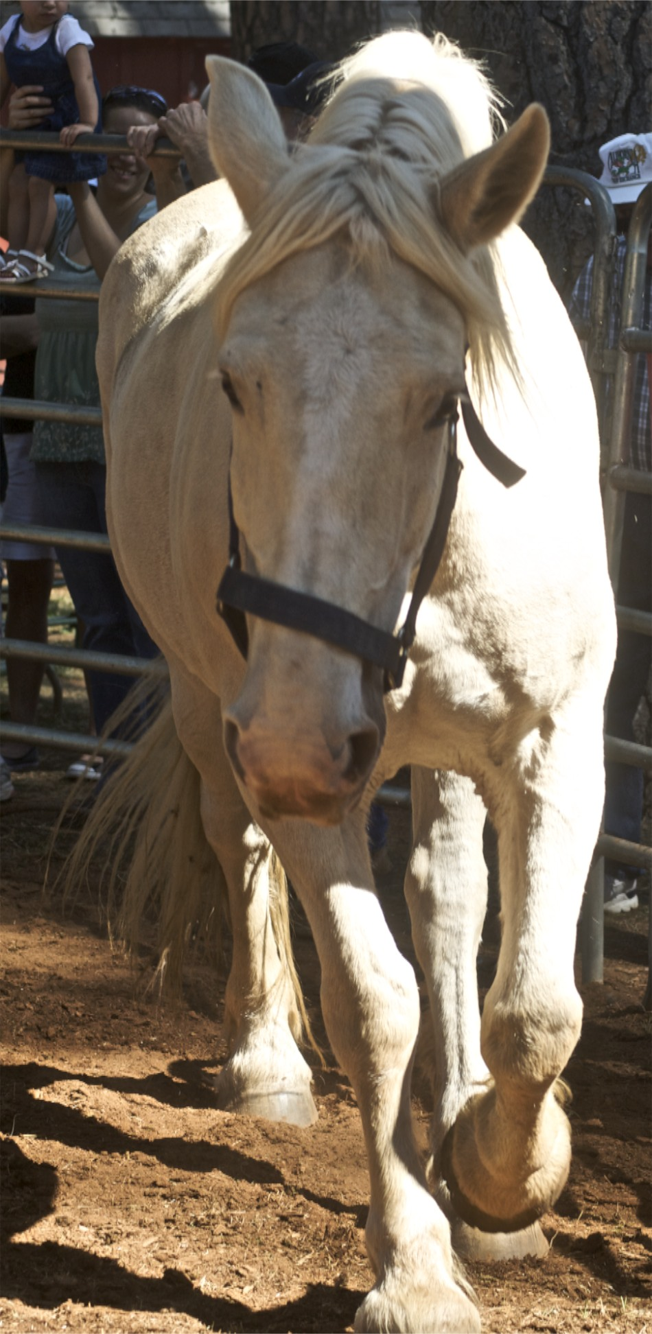 American Cream Draft Horse